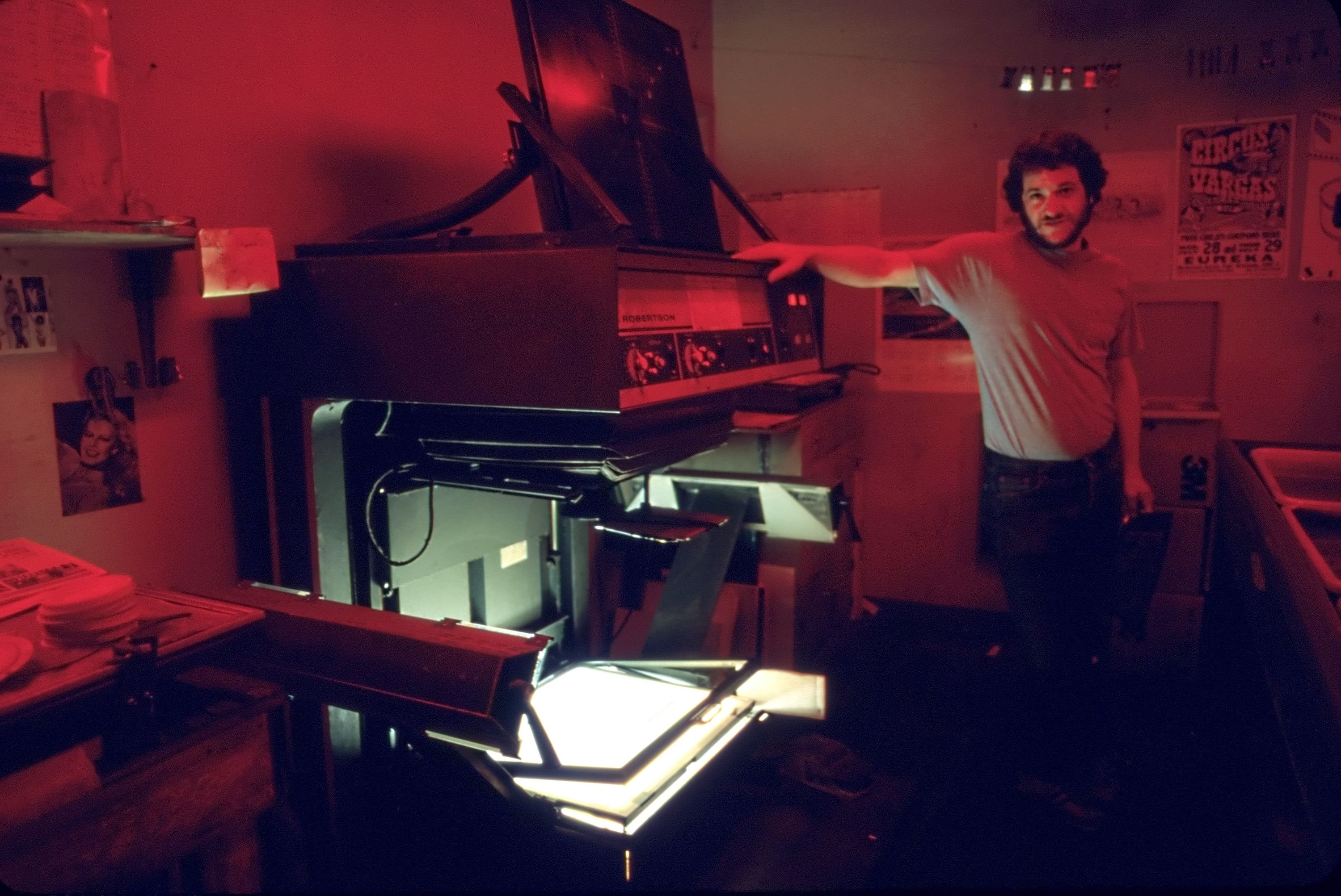 Newspapers used to shoot page negatives on process cameras (this one has its backlight on for the photo). The full-size litho negatives were then contacted printed on the plates in a plate burner - typically with an cold arc light. This darkroom is at the Arcata Union, in northwestern California. The Union's plate burner used carbon arc sticks and made sizzling sound, produced violet light and smelled bad when in operation. Can't remember the pictured prepress tech's name; I was primarily a photographer and filled in for him when he took vacation; we worked different shifts. The process camera is a Robertson, just like the one I used at the Sun Reporter in San Francisco. Image was shot with a Nikon F3HP on Ektachrome 400, pushed one stop, if I recall correctly. The Arcata Union published from 1886 to 1995. I worked for them from 1983 to 1985.